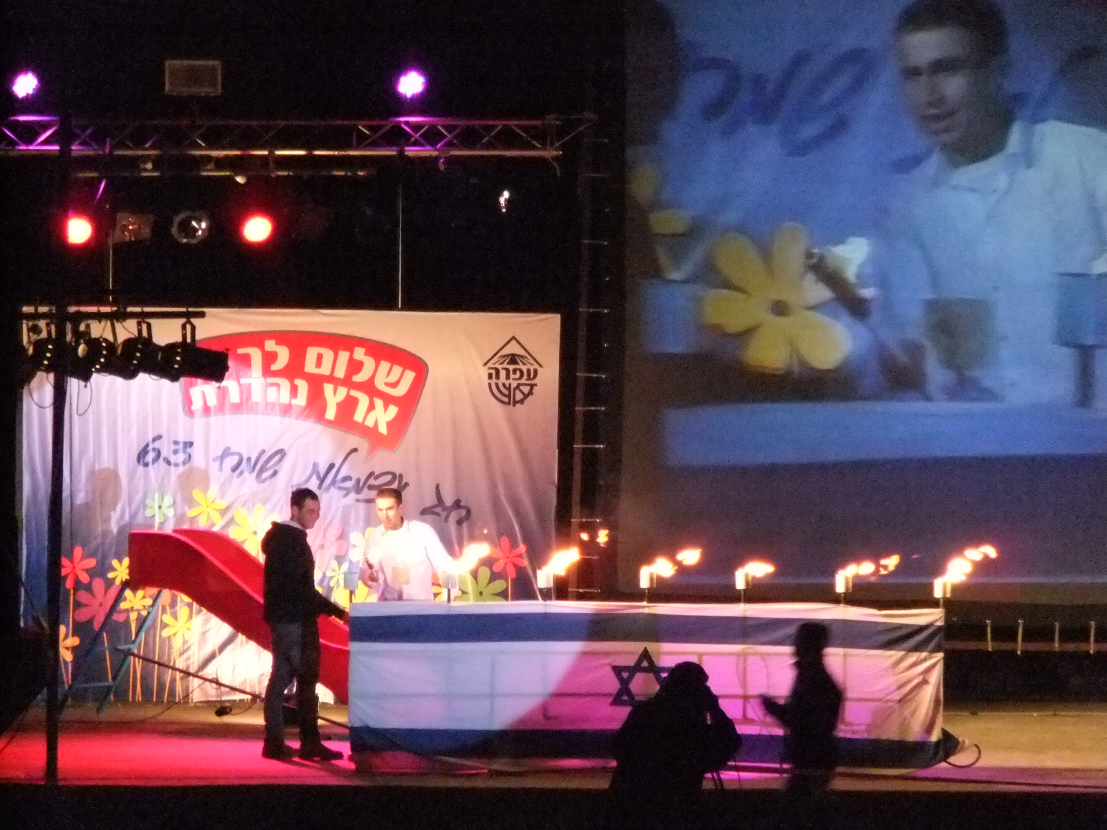 Amit Novik lighting a torch in honor of Israel independence day, in Ofra